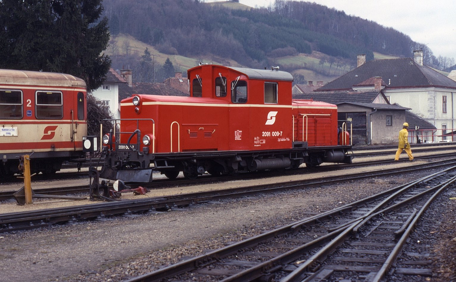 2091 009 at Waidhofen an der Ybbs station.